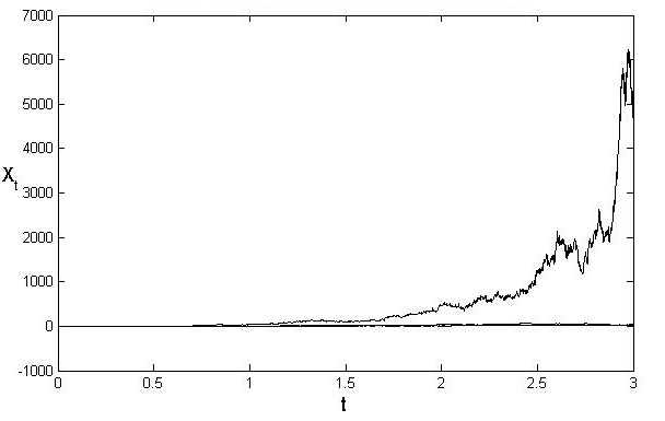 Numerical simulation of a stochastic differential equation via the Milstein method. it is plotted three different trajectories, the drift coefficient is twice the diffusion.